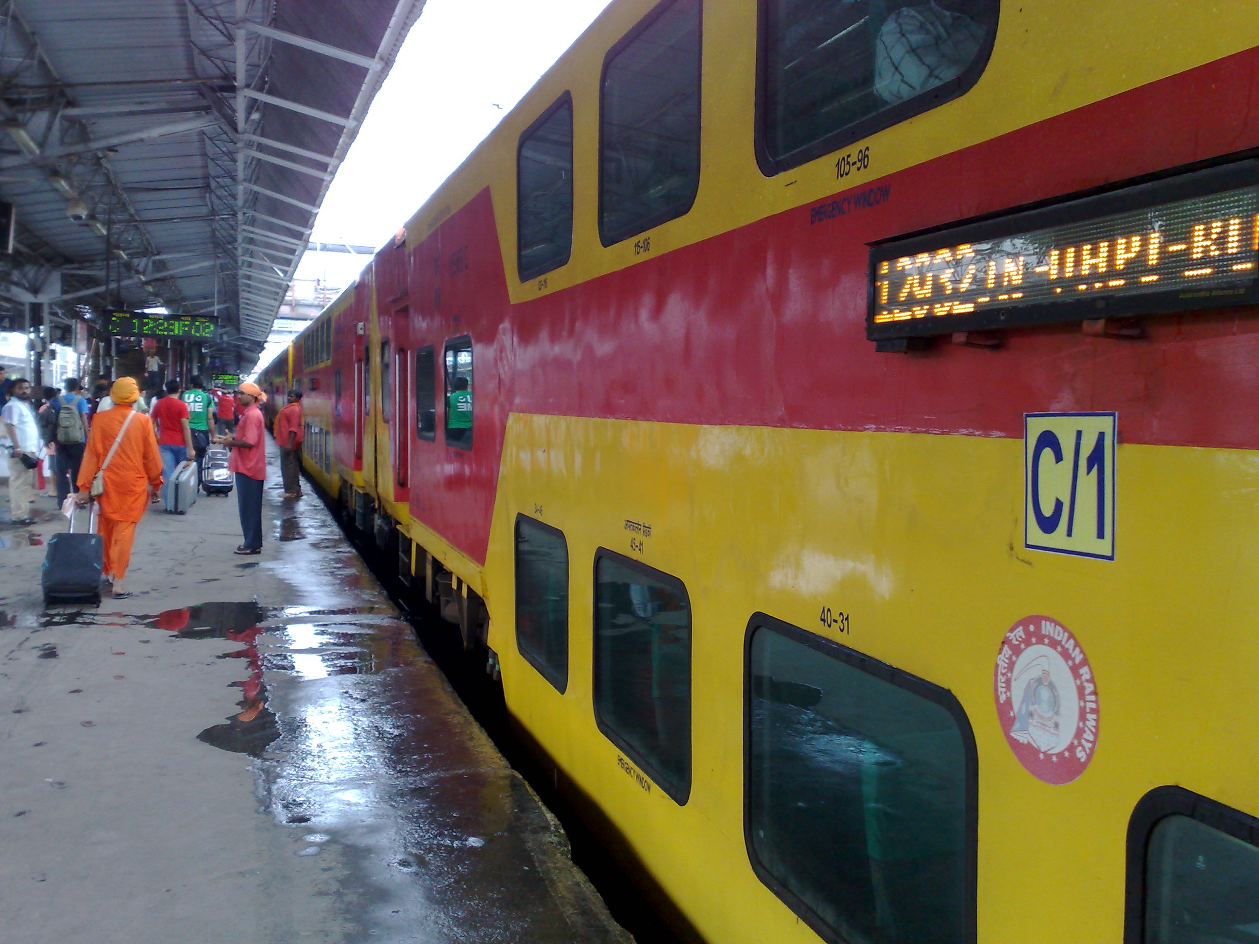 12932 Ahmedabad Double Decker at Borivali station